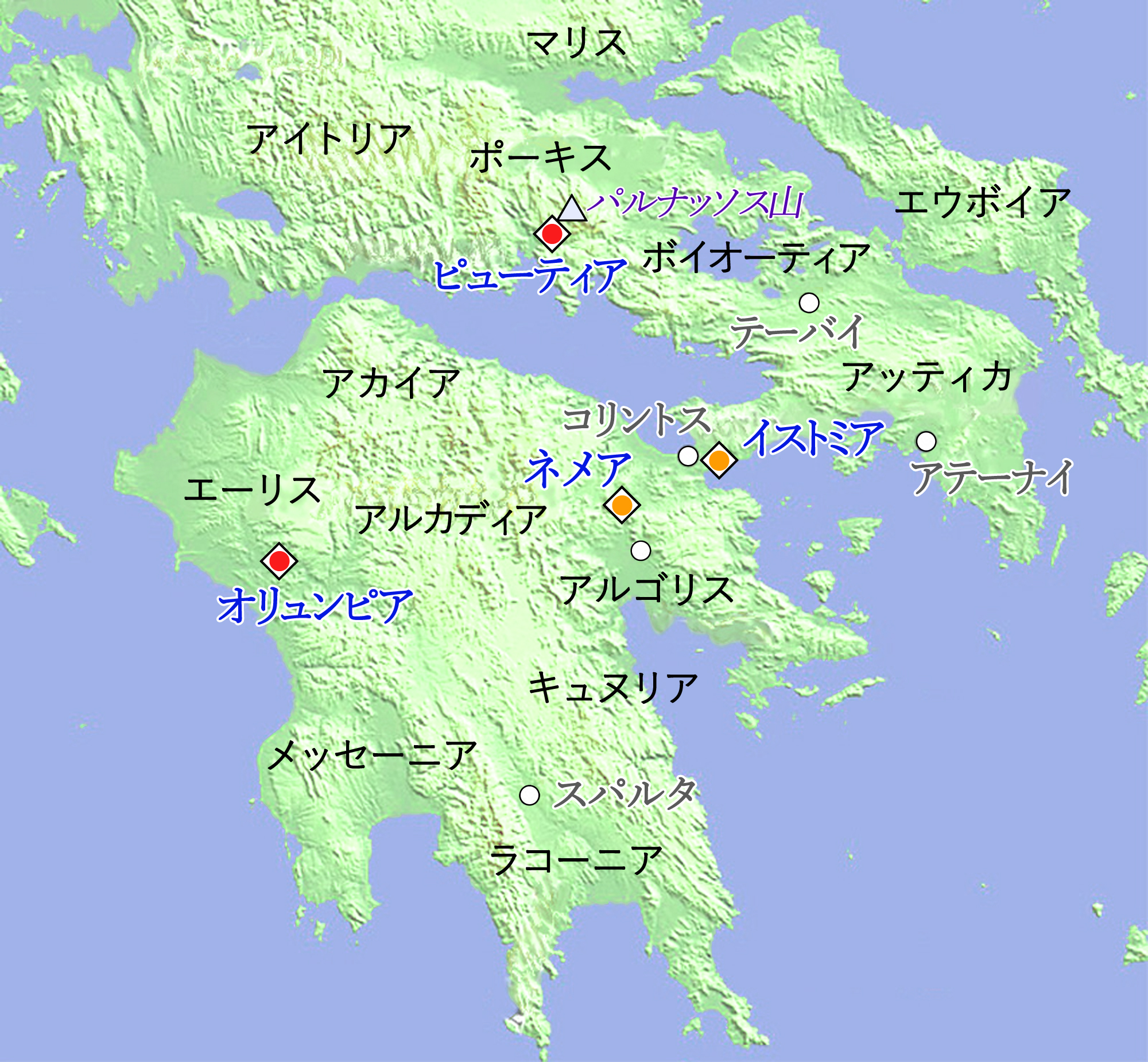 created by Maris stella, bg-map is PD